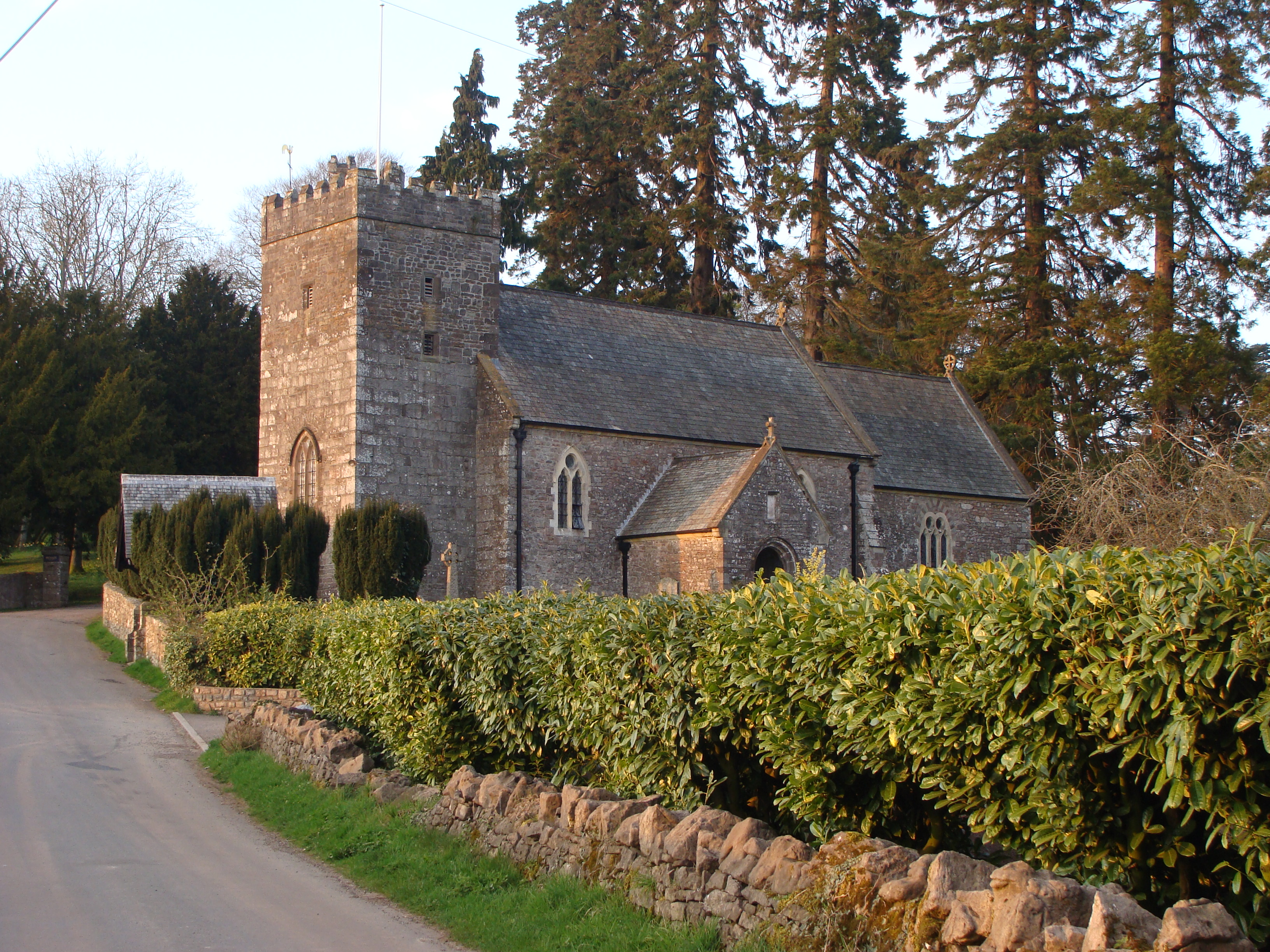 St Deiniol's church, Itton This photo was taken at 7.30pm of an April evening.